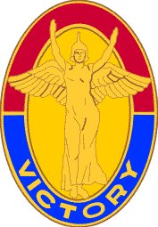 1st Infantry Division Distinctive Unit Insignia.